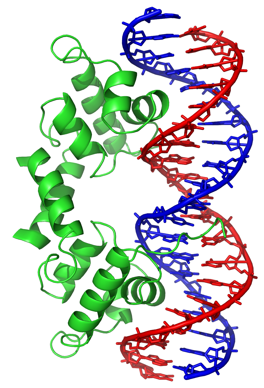 By Richard Wheeler (Zephyris) 2007. Lambda repressor protein bound to a lambda operator DNA sequence. From .